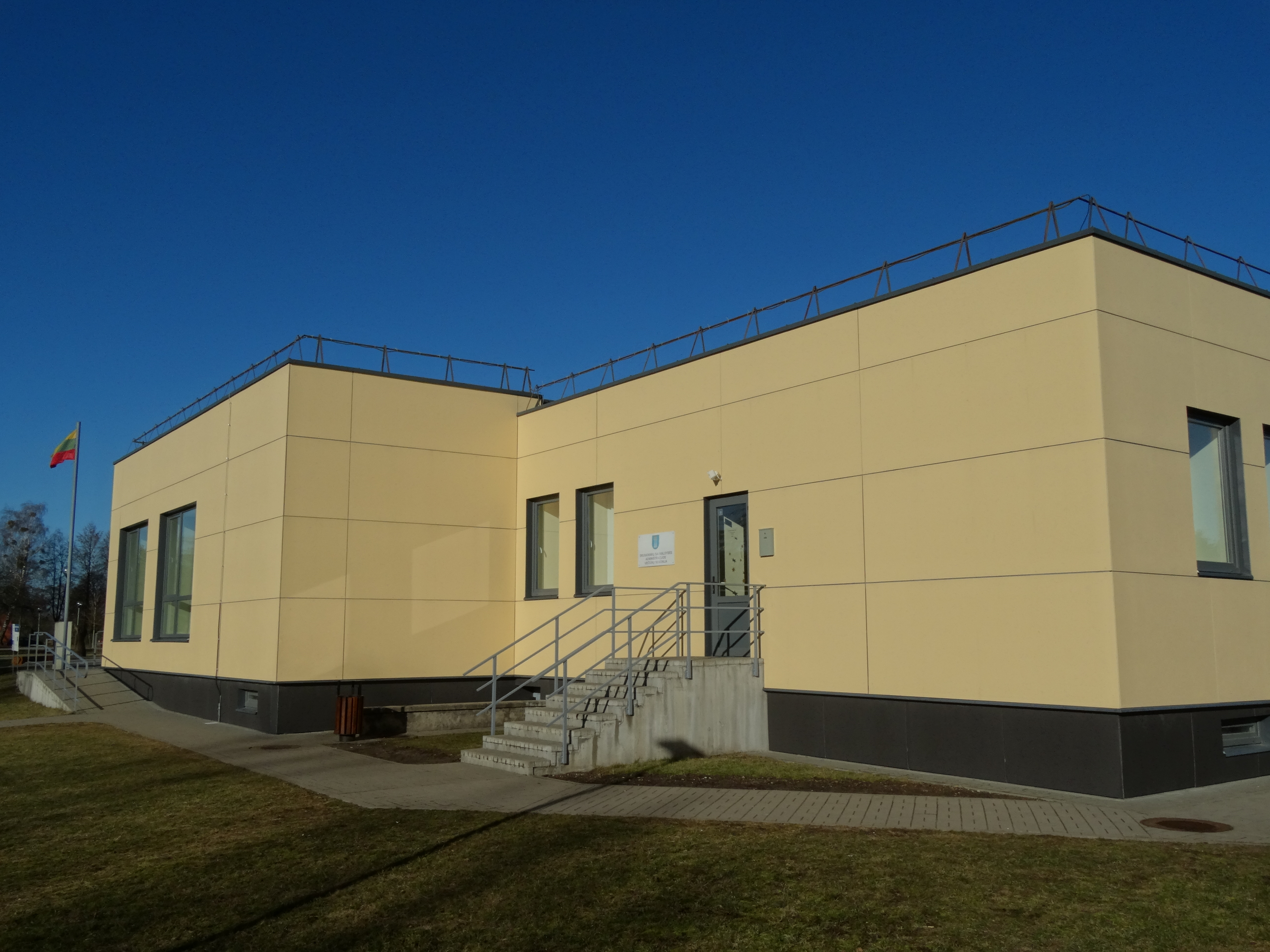 Eldership, Viečiūnai, Druskininkai Municipality, Lithuania